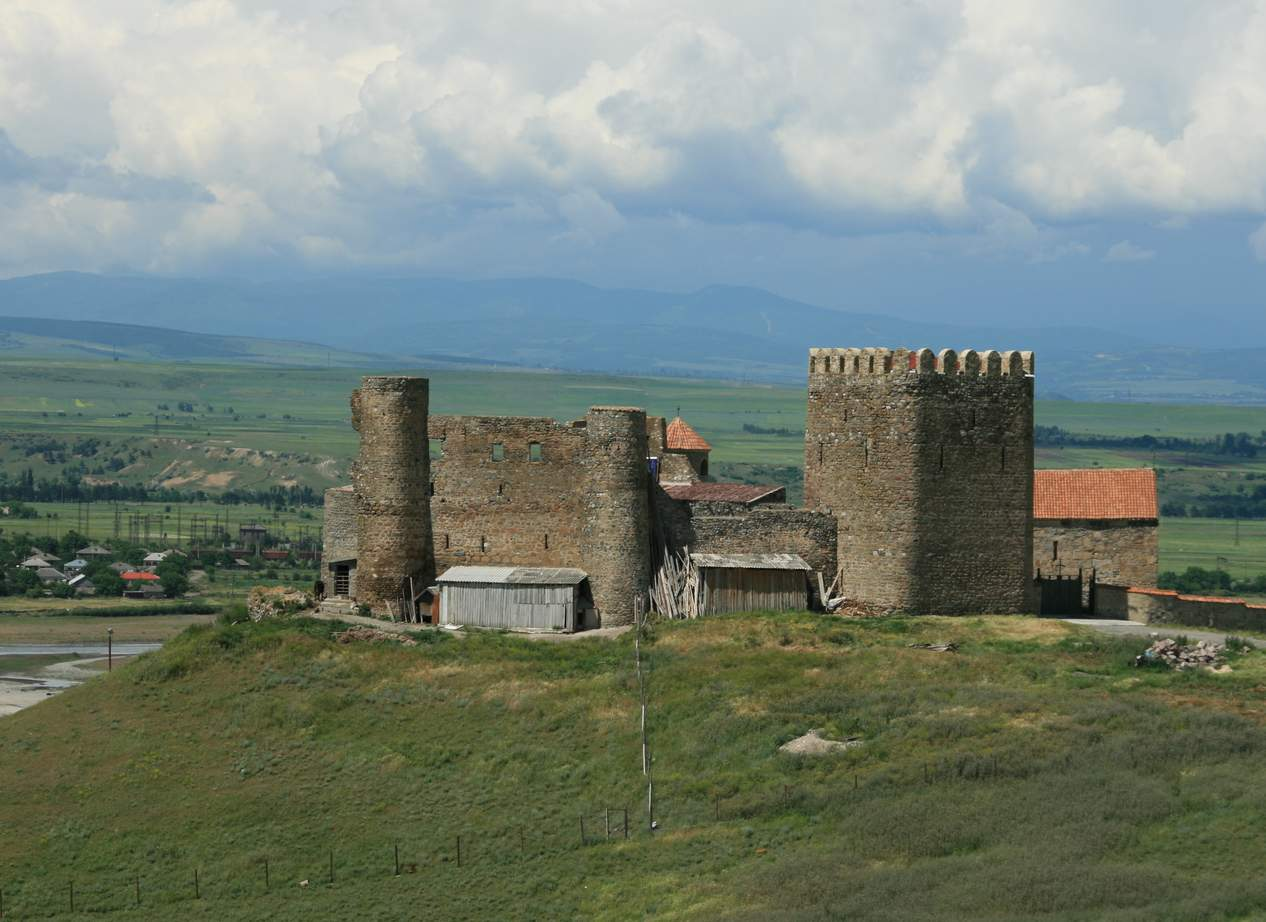 Samtsevrisi monastery complex